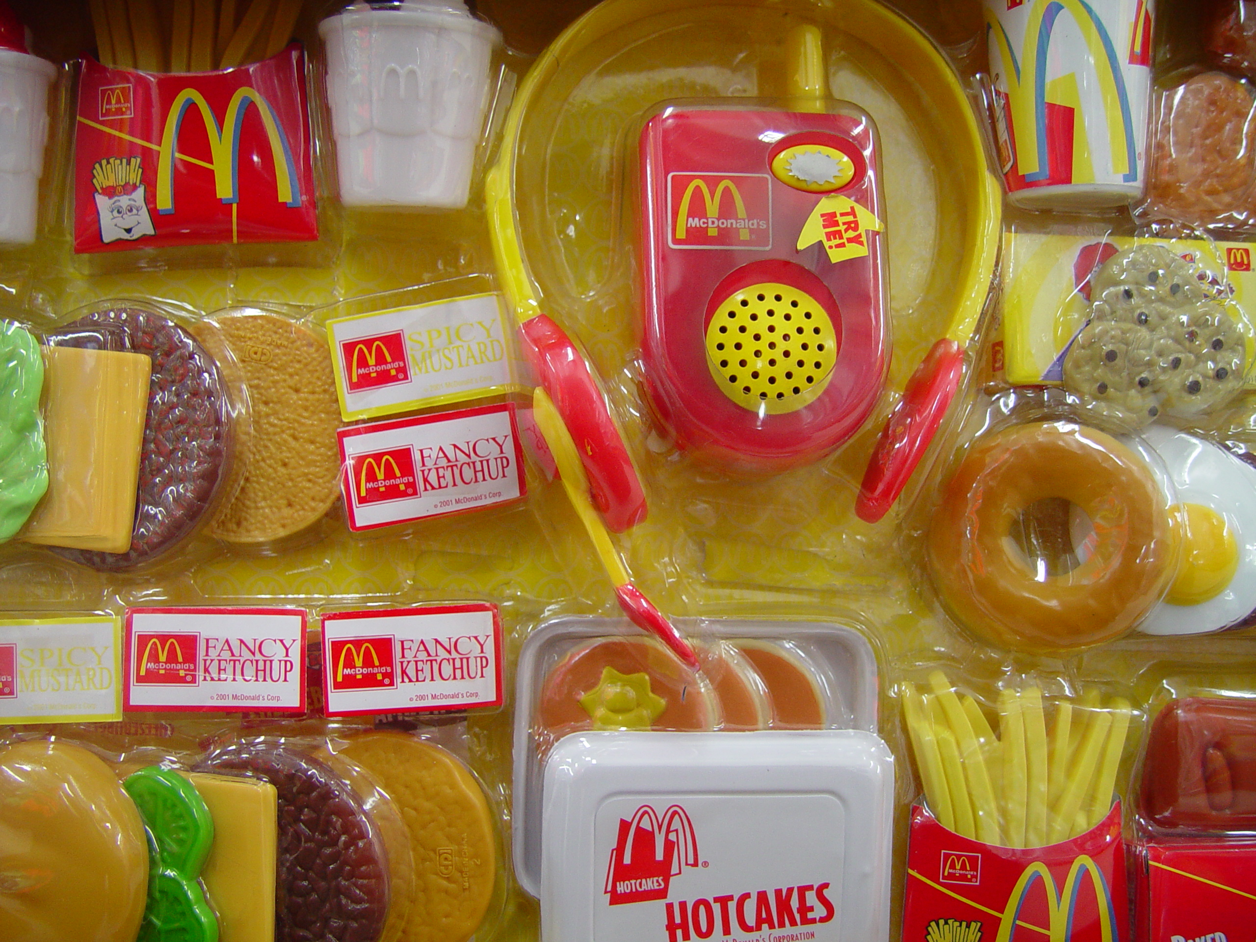 Mall cultural in Jakarta, Indonesia.